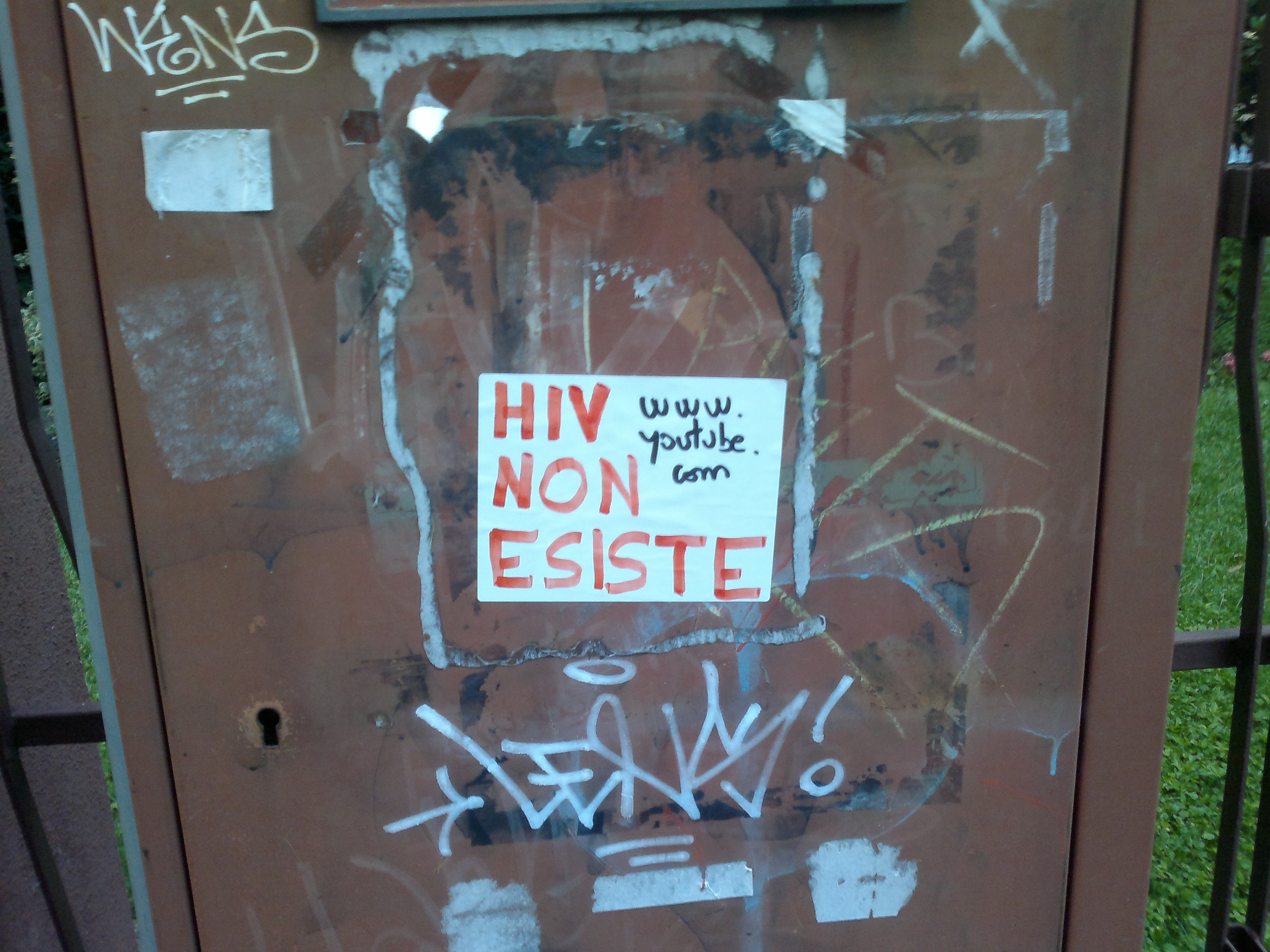 «HIV non esiste» («HIV doesn't exist») HIV denialism sticker in Turin, Italy.